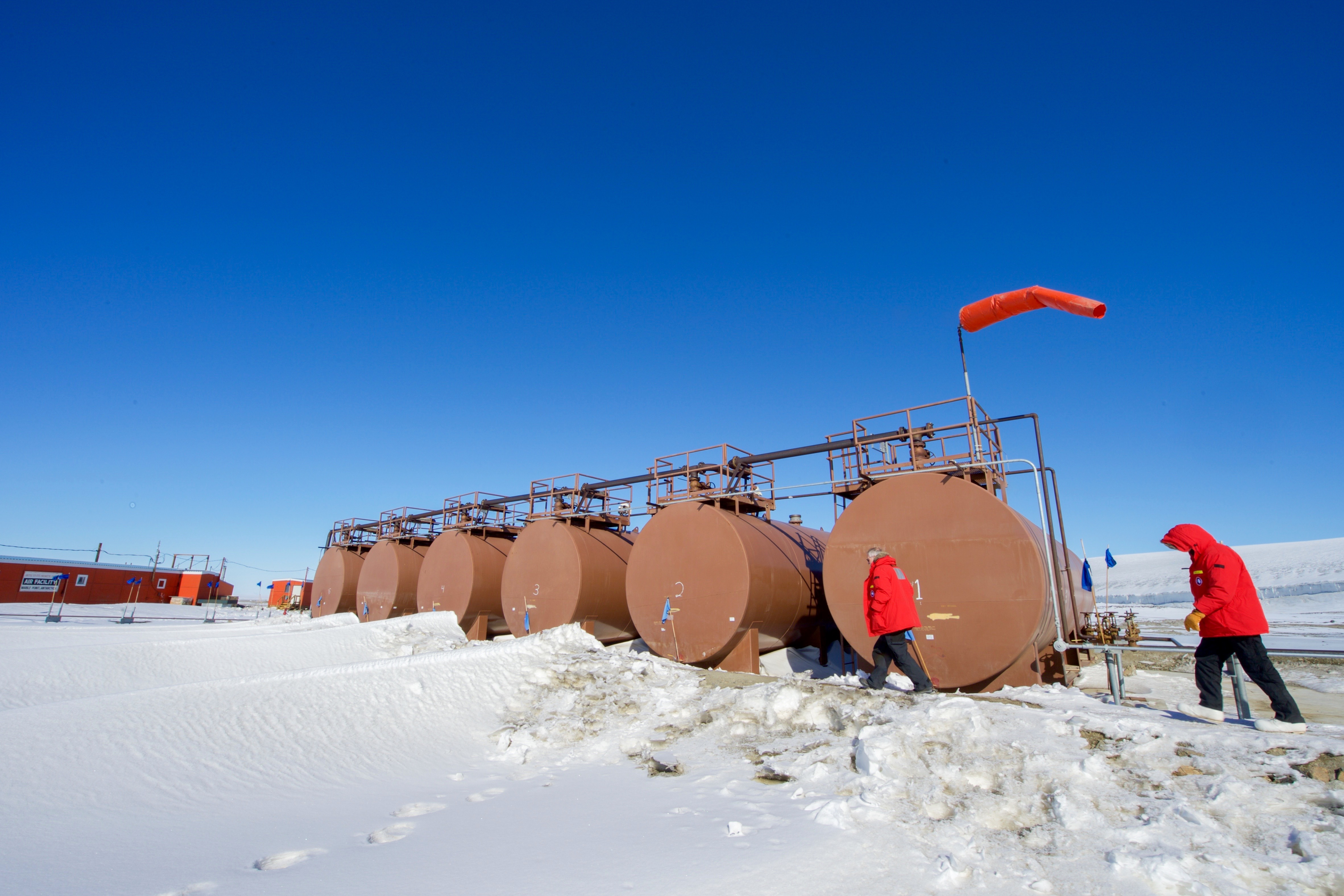 U.S. Secretary of State John Kerry walks past a series of fuel tanks after he landed at Marble Point, Antarctica, on November 11, 2016, as he conducted a helicopter tour of U.S. research facilities around Ross Island and the Ross Sea, and visited the McMurdo Station in an effort to learn about the effects of climate change on the Continent. [State Department Photo/ Public Domain]